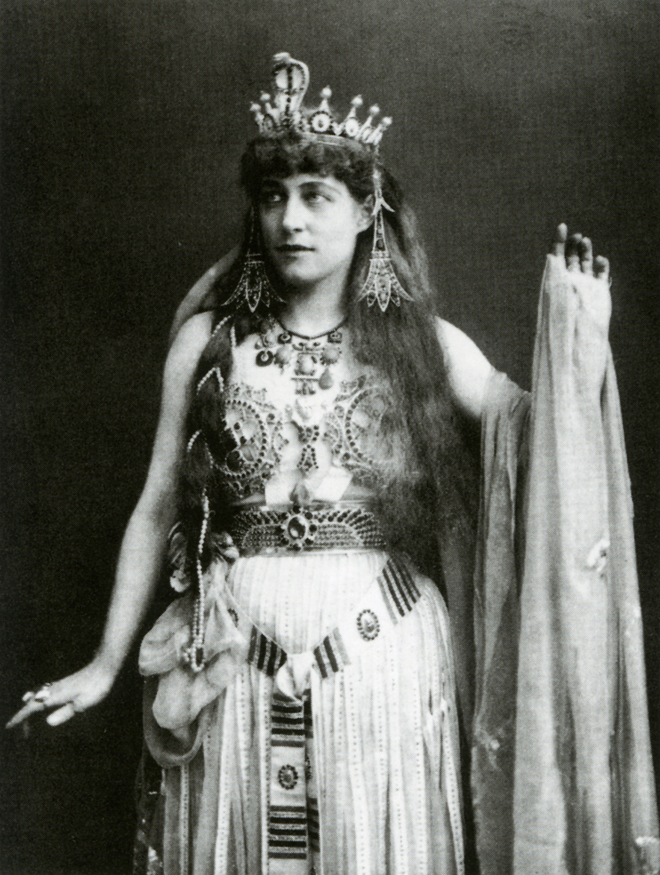 This image is a JPEG version of the original PNG image at File: Lillie Langstry by W. & D. Downey.png. Generally, this JPEG version should be used when displaying the file from Commons, in order to reduce the file size of thumbnail images. However, any edits to the image should be based on the original PNG version in order to prevent generation loss, and both versions should be updated. Do not make edits based on this version. See here for more information. Lillie Langtry, 1852-1929. Photogravure by W. & D. Downey, 1891. 23.3 x 18.4cm (9 1/8 x 7 1/4"). National Portrait Gallery: NPG x17963 While Commons policy accepts the use of this media, one or more third parties have made copyright claims against Wikimedia Commons in relation to the work from which this is sourced or a purely mechanical reproduction thereof. This may be due to recognition of the "sweat of the brow" doctrine, allowing works to be eligible for protection through skill and labour, and not purely by originality as is the case in the United States (where this website is hosted). These claims may or may not be valid in all jurisdictions. As such, use of this image in the jurisdiction of the claimant or other countries may be regarded as copyright infringement. Please see Commons:When to use the PD-Art tag for more information. See User:Dcoetzee/NPG legal threat for original threat and National Portrait Gallery and Wikimedia Foundation copyright dispute for more information. This tag does not indicate the copyright status of the attached work. A normal copyright tag is still required. See Commons:Licensing for more information.